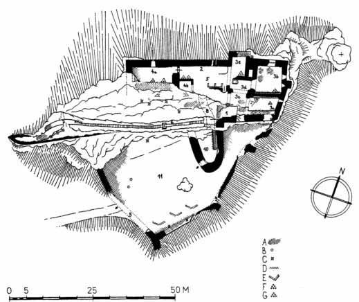 Plan of Lednica Castle.